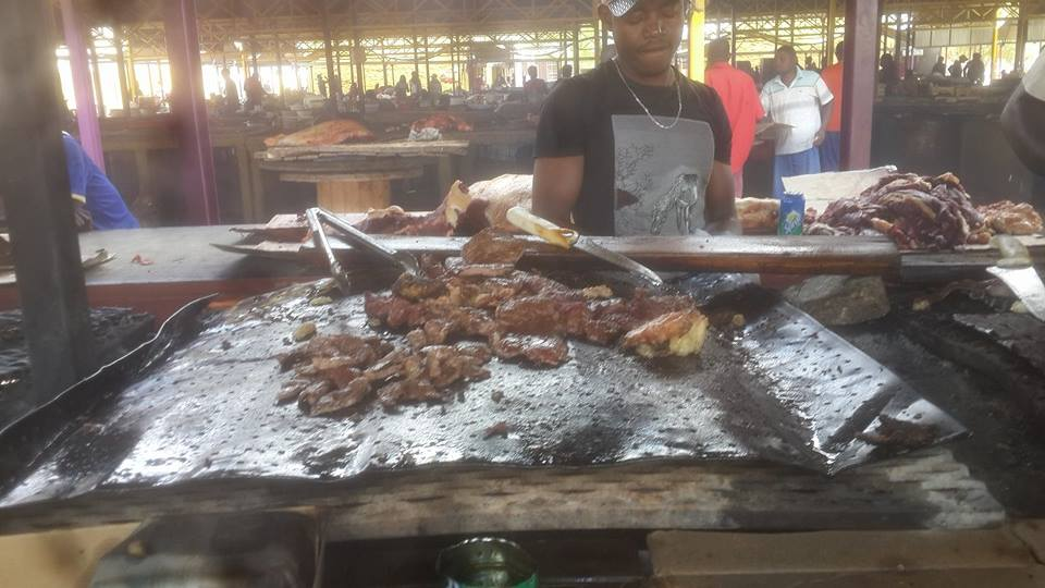 Tourist attraction in Katurura, Windhoek, Namibia. Kapana meat braai This is an image of "African people at work" from Namibia